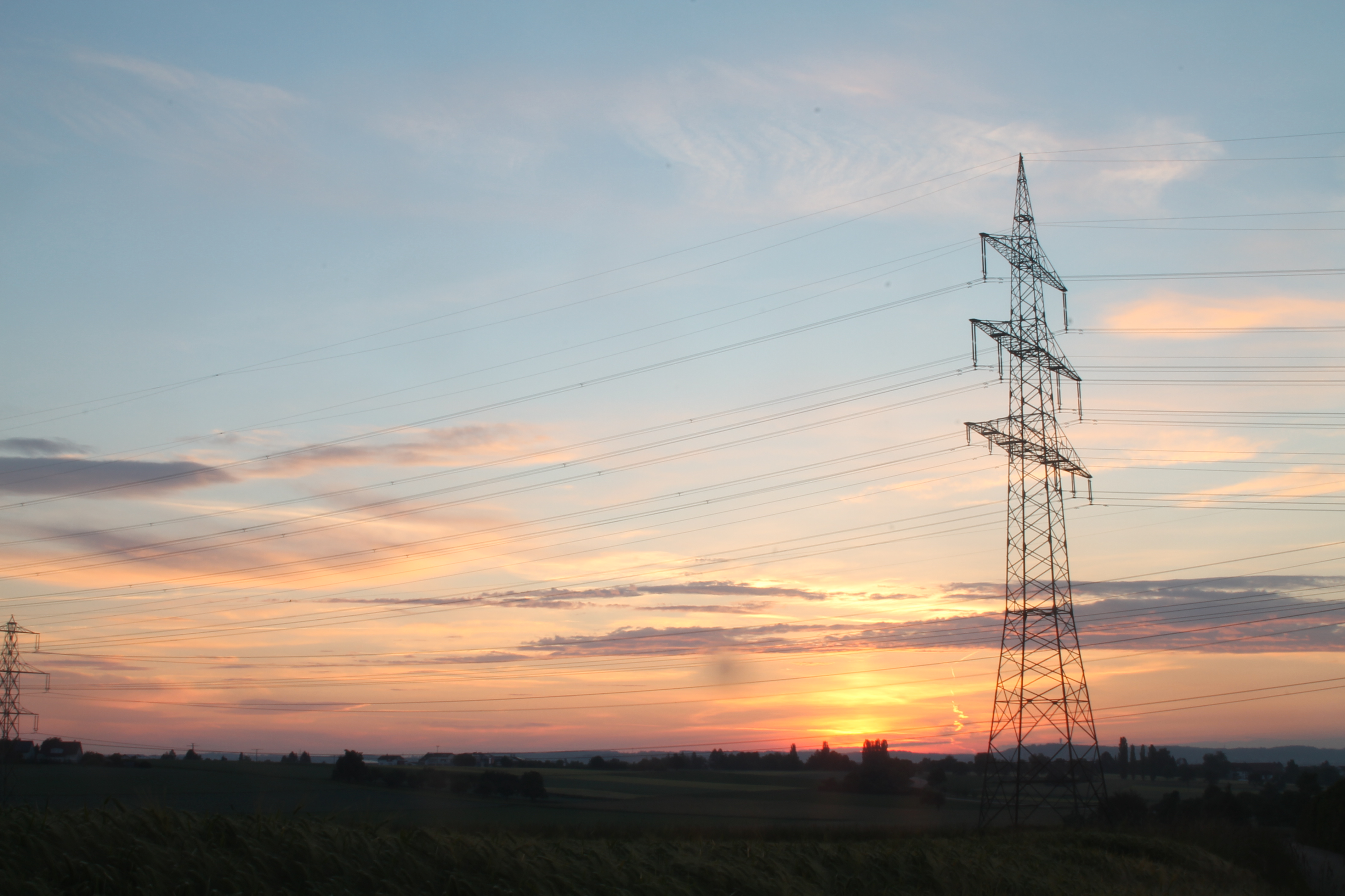 Pylon of 380 kV/110 kV powerline Pulverdingen–Oberjettingen near Darmsheim in Sindelfingen. Note the two garland-type air cables on the top and the free-carried air cable at the second crossbar